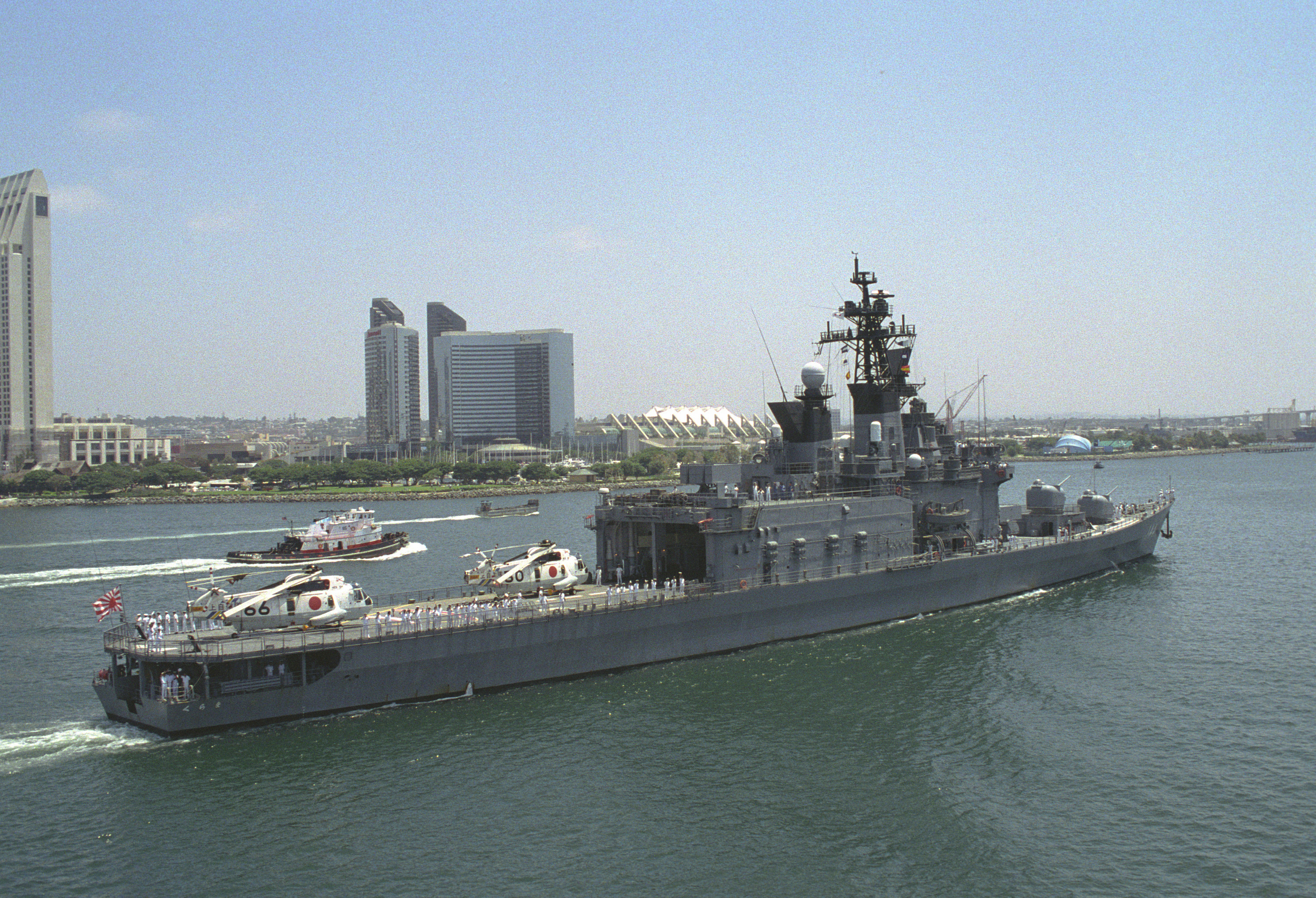 A starboard view of the Japanese Maritime Self Defense Force (JMSDF) 2 Shirane Class Helicopter Destroyer KURAMA (DDG 144), as it sails past the Embarcadero Marina Park and the San Diego Convention Center is in the background. On the stern of the ship sits a pair of Mitsubishi HSS-2B Sea Kings. The ship is participating in RIMPAC 92 (Rim of the Pacific Exercise 1992).